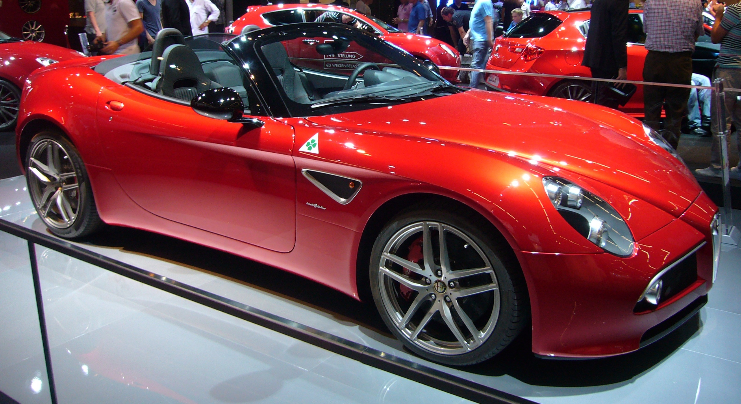 Alfa Romeo 8C Spider at AutoRAI Amsterdam 2011